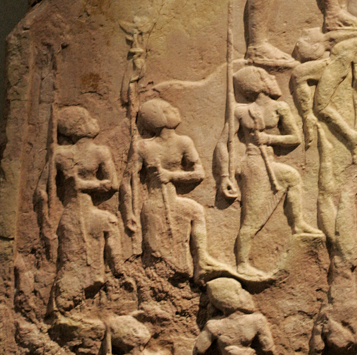 Akkadian Empire soldiers on the victory stele of Naram-Sin circa 2250 BC